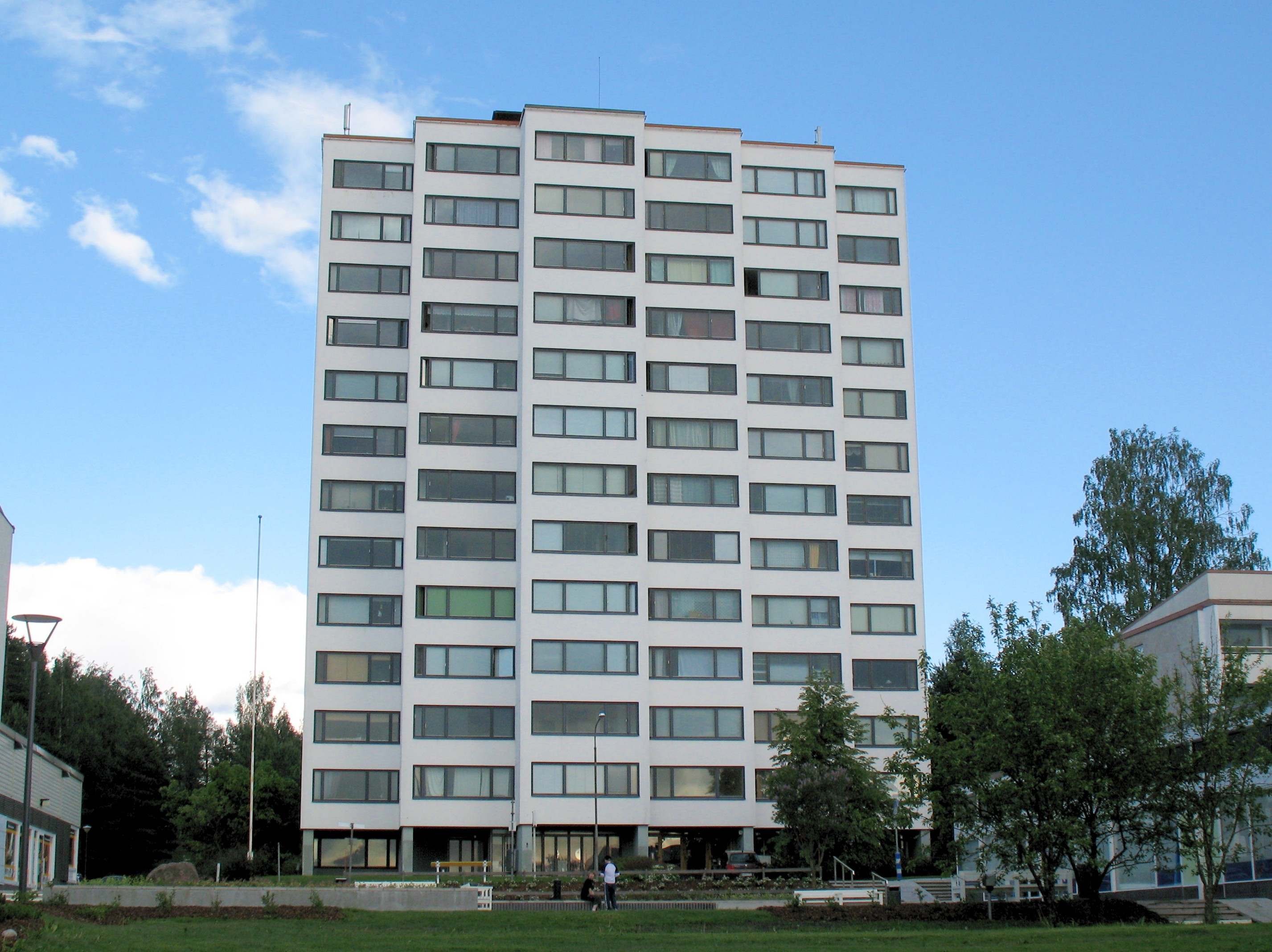 Viitatorni apartment building designed by Alvar Aalto. Second highest building in Jyväskylä.